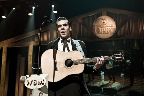 Justin Townes Earle makes Grand Ole Opry Debut